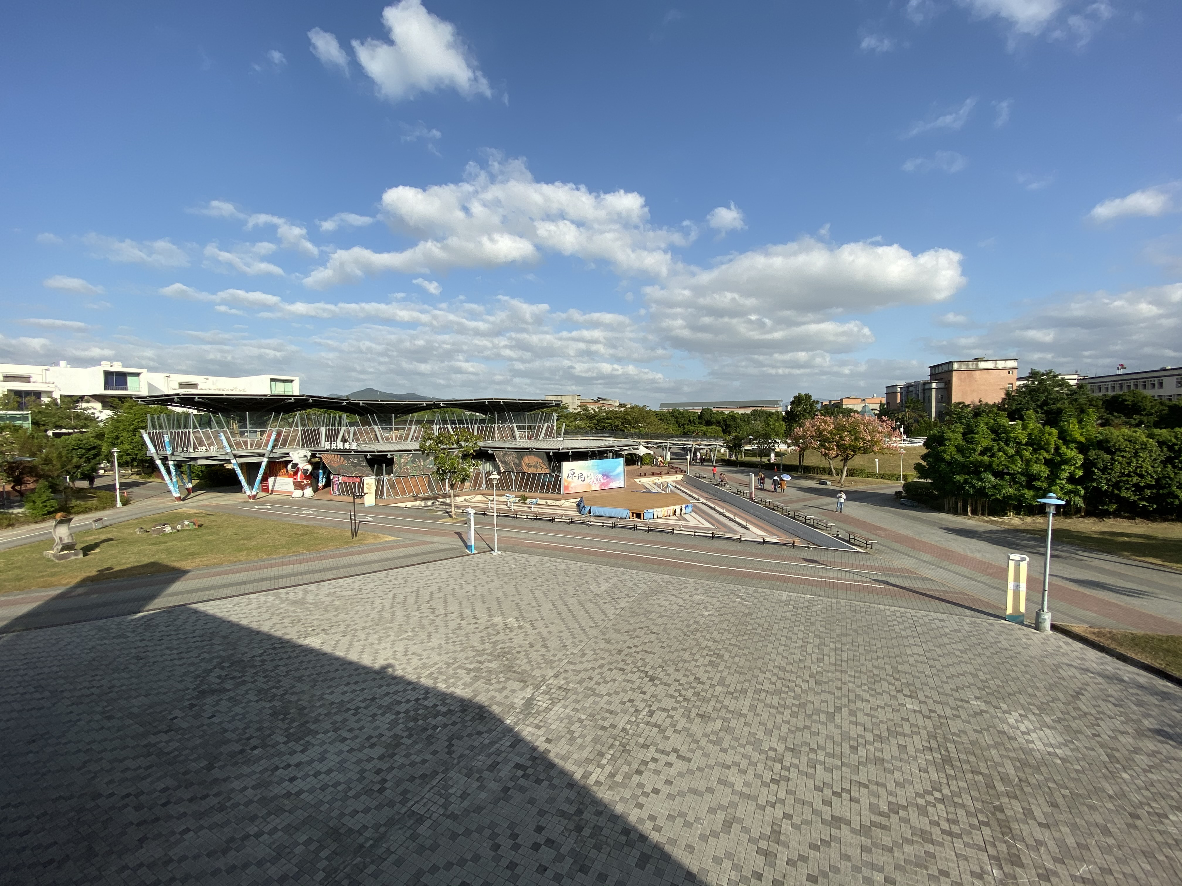 Pavilion of Arome of Flower